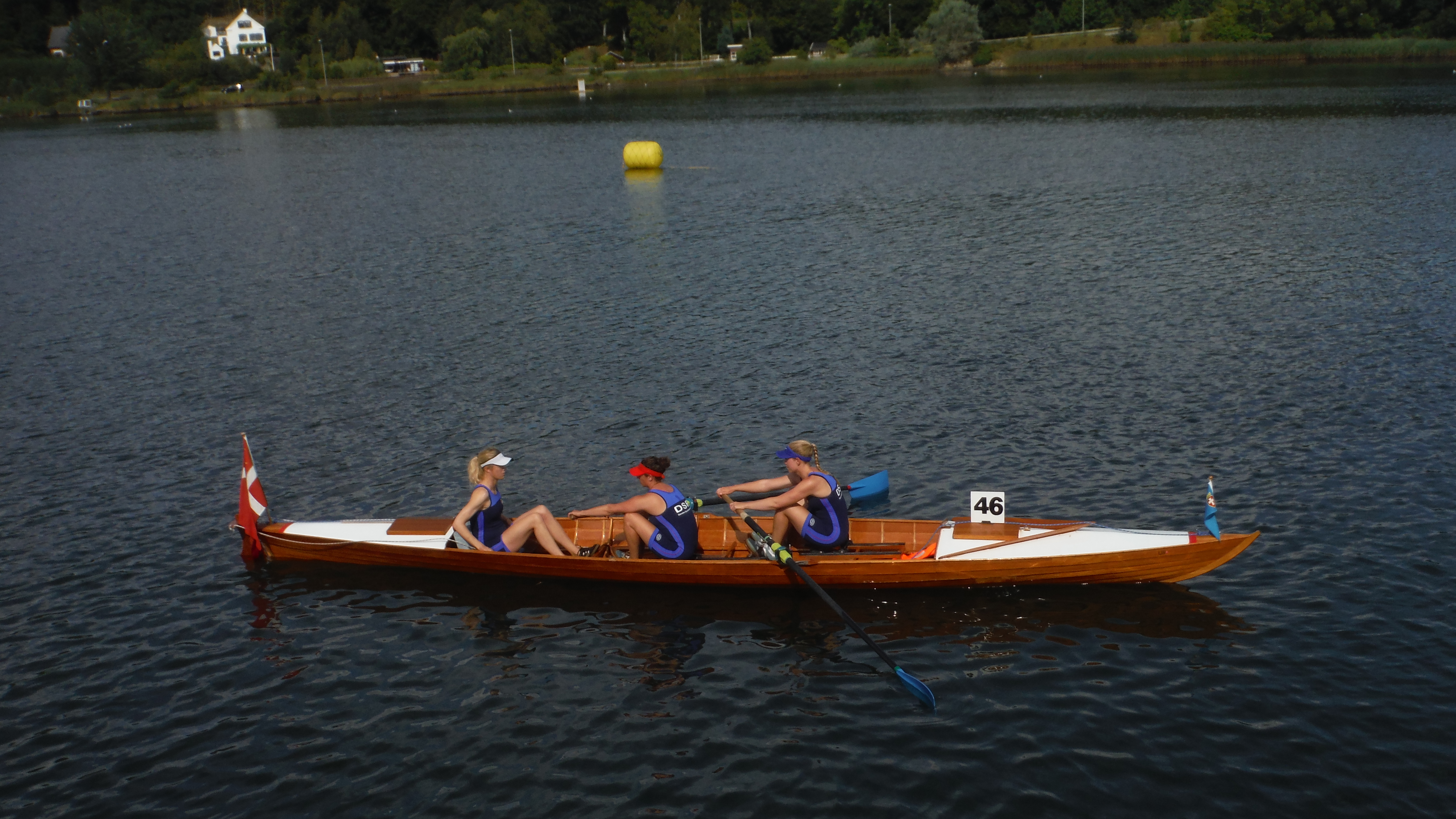 Inrigger rowing